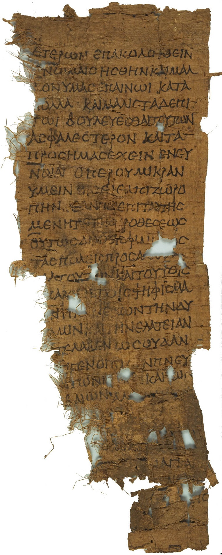 Papyrus Oxyrhynchus 1377 - Princeton University Library, AM 9051 - Demosthenes, De Corona 167–169